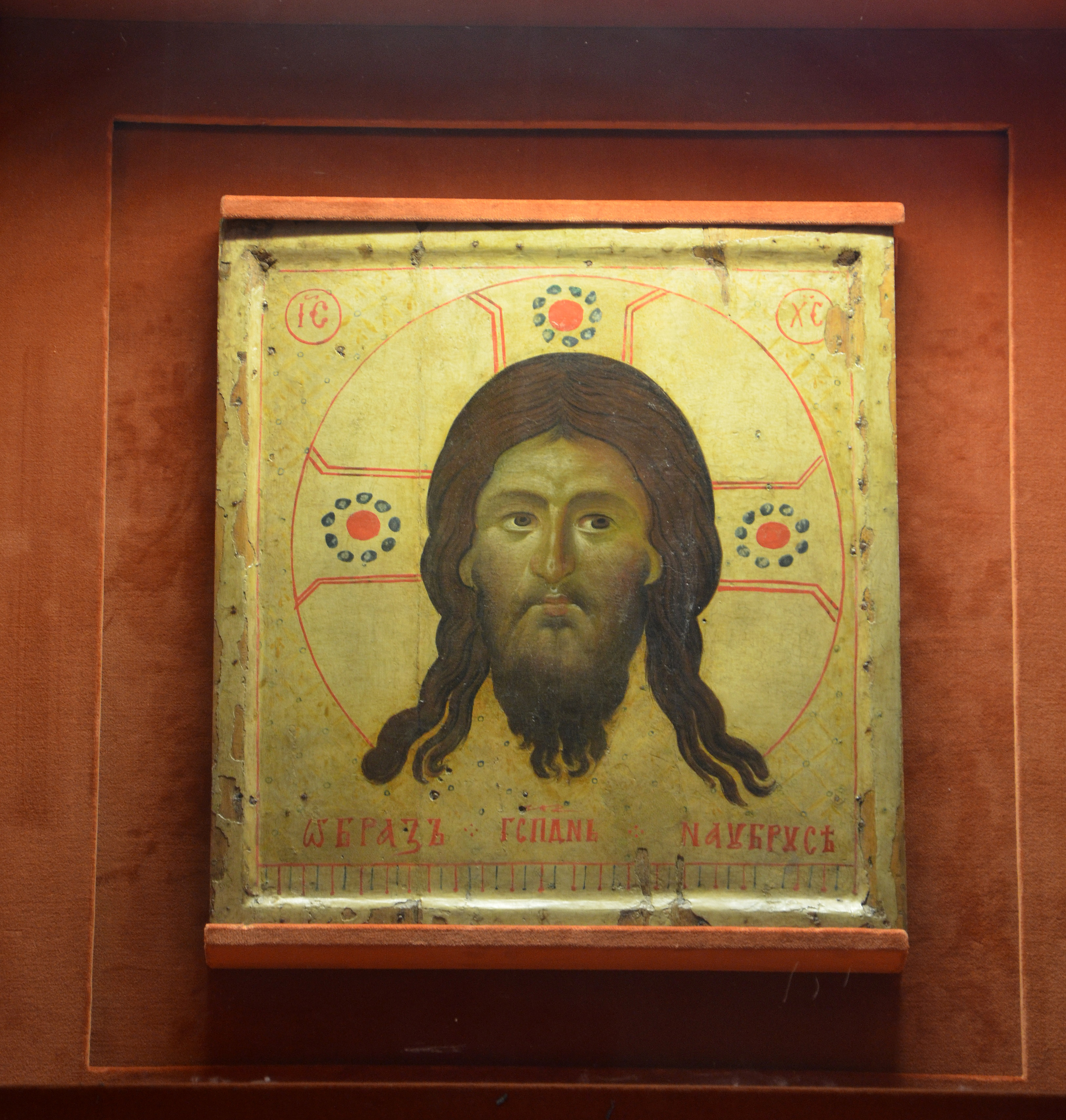 Serbian icon of the Holy face ( XII or XIII century) kept in the cathédrale of Laon, Aisne, France